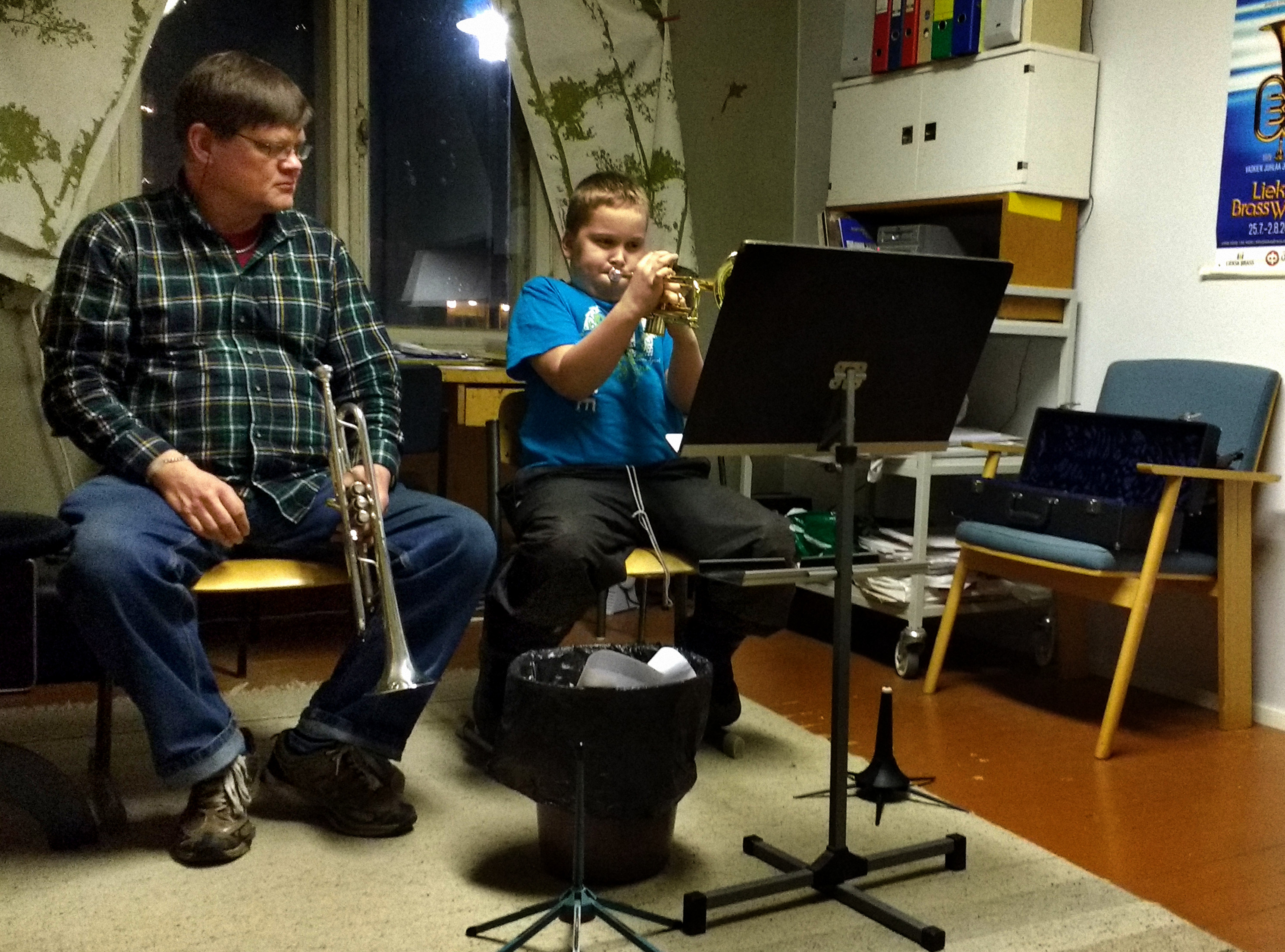 Young Trumpetist